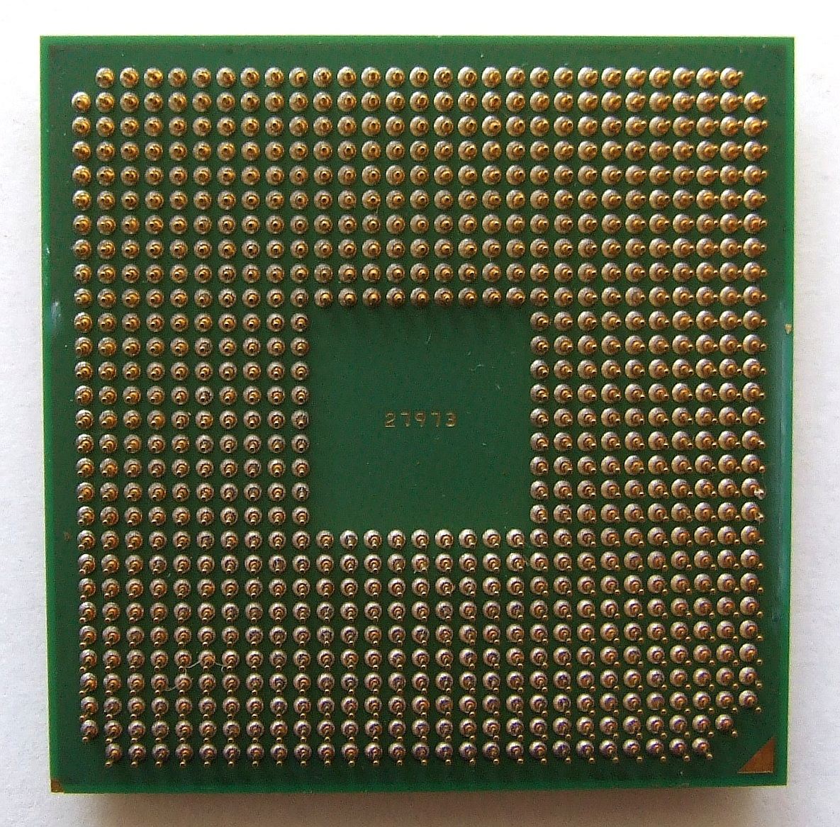 AMD Sempron for socket 754 (bottom view)